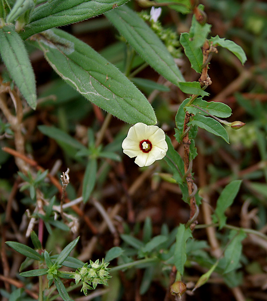 Arrow-leaf Morning Glory Xenostegia tridentata in Hyderabad , India. Merremia tridentata is the new name